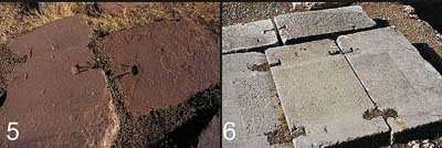 Interlocking of stone blocks